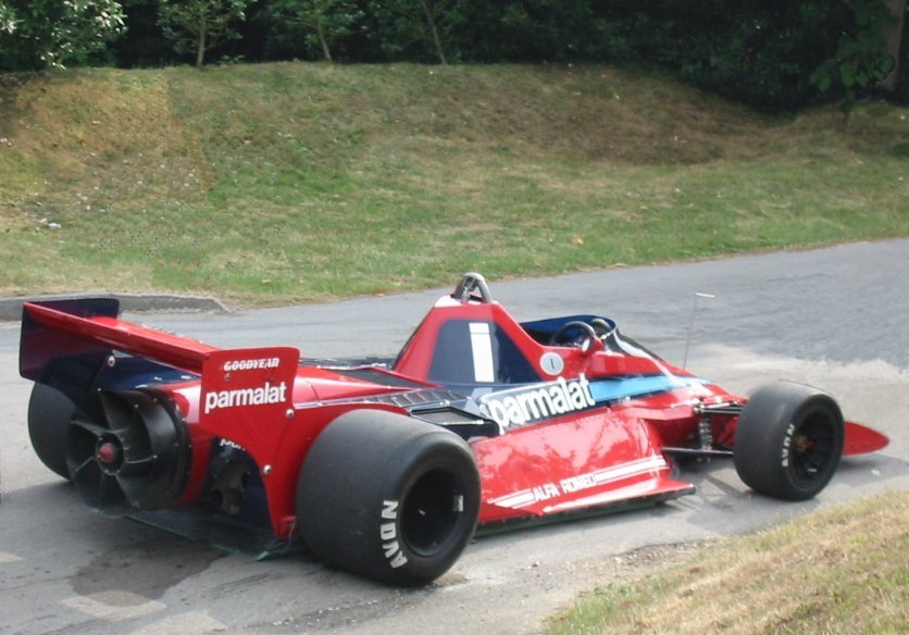 Brabham BT46B at the Goodwood Festival of Speed 2001, note that the car competed on Goodyear tyres, not Avon.